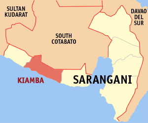 Map of the Sarangani showing the location of Kiamba